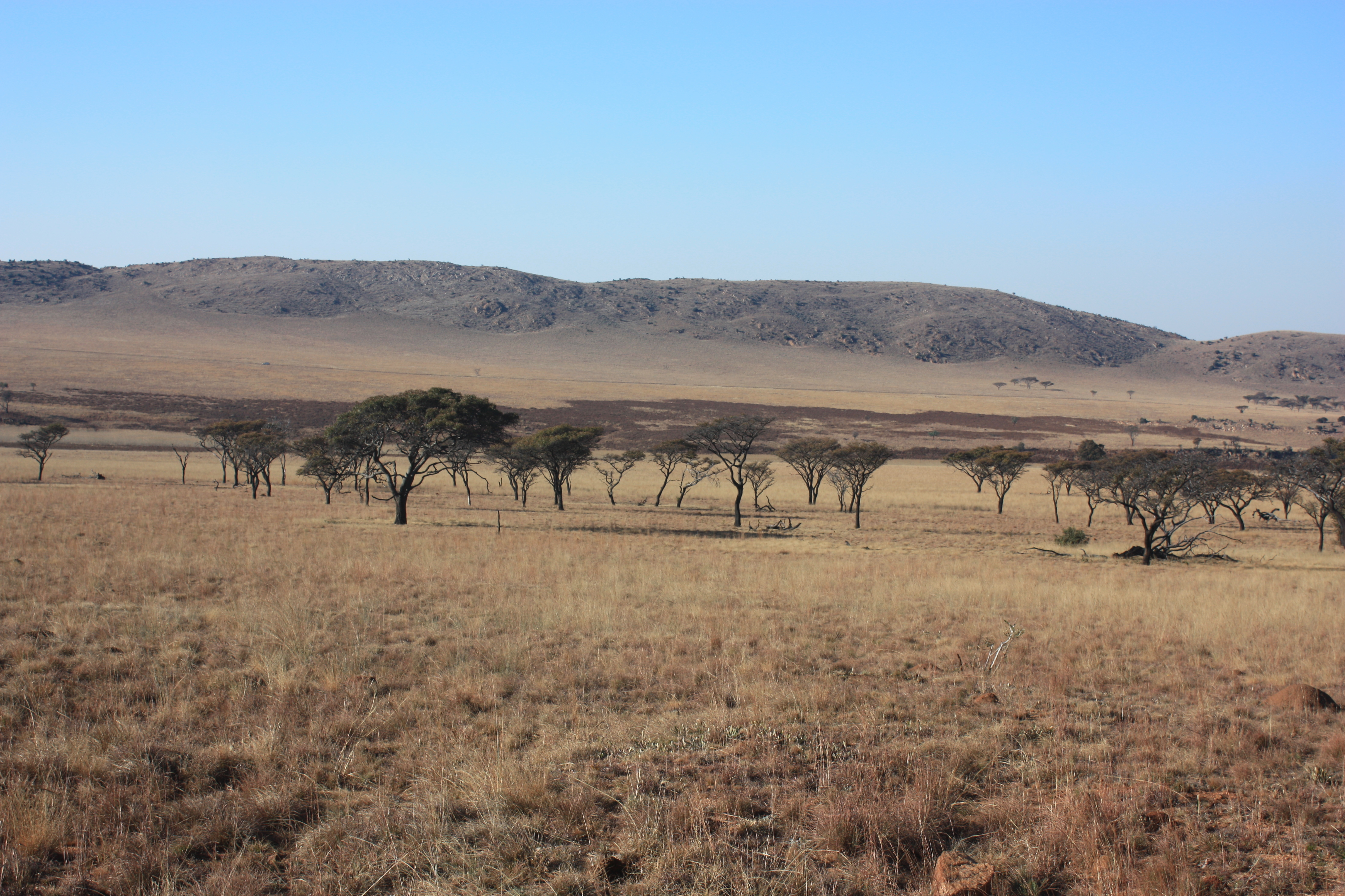 Kgaswane Mountain Reserve, Rustenburg, South Africa